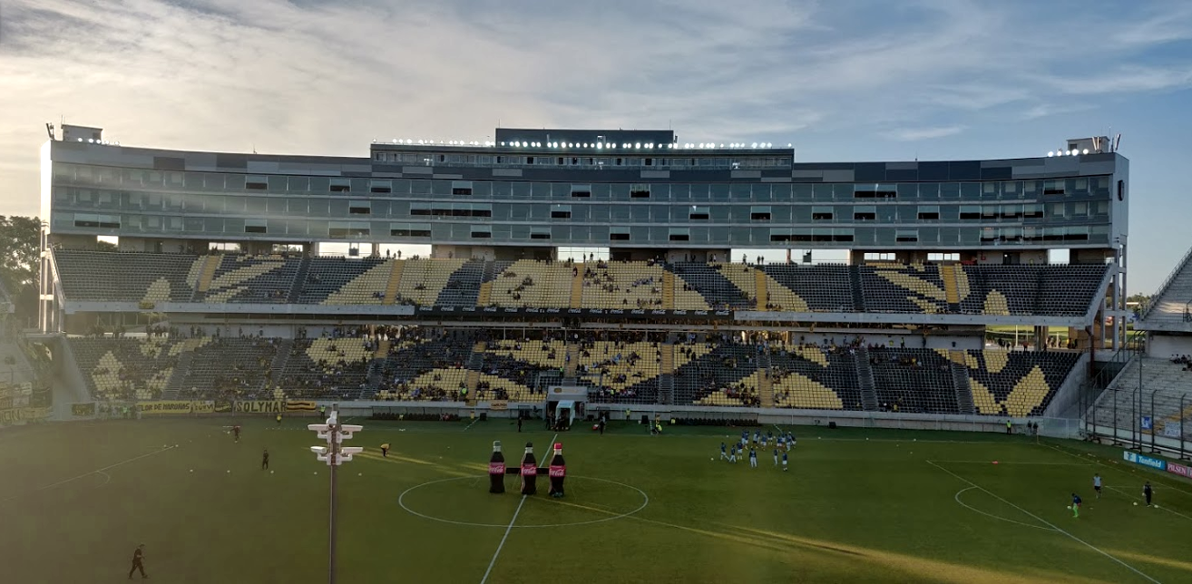 Peñarol's Stadium